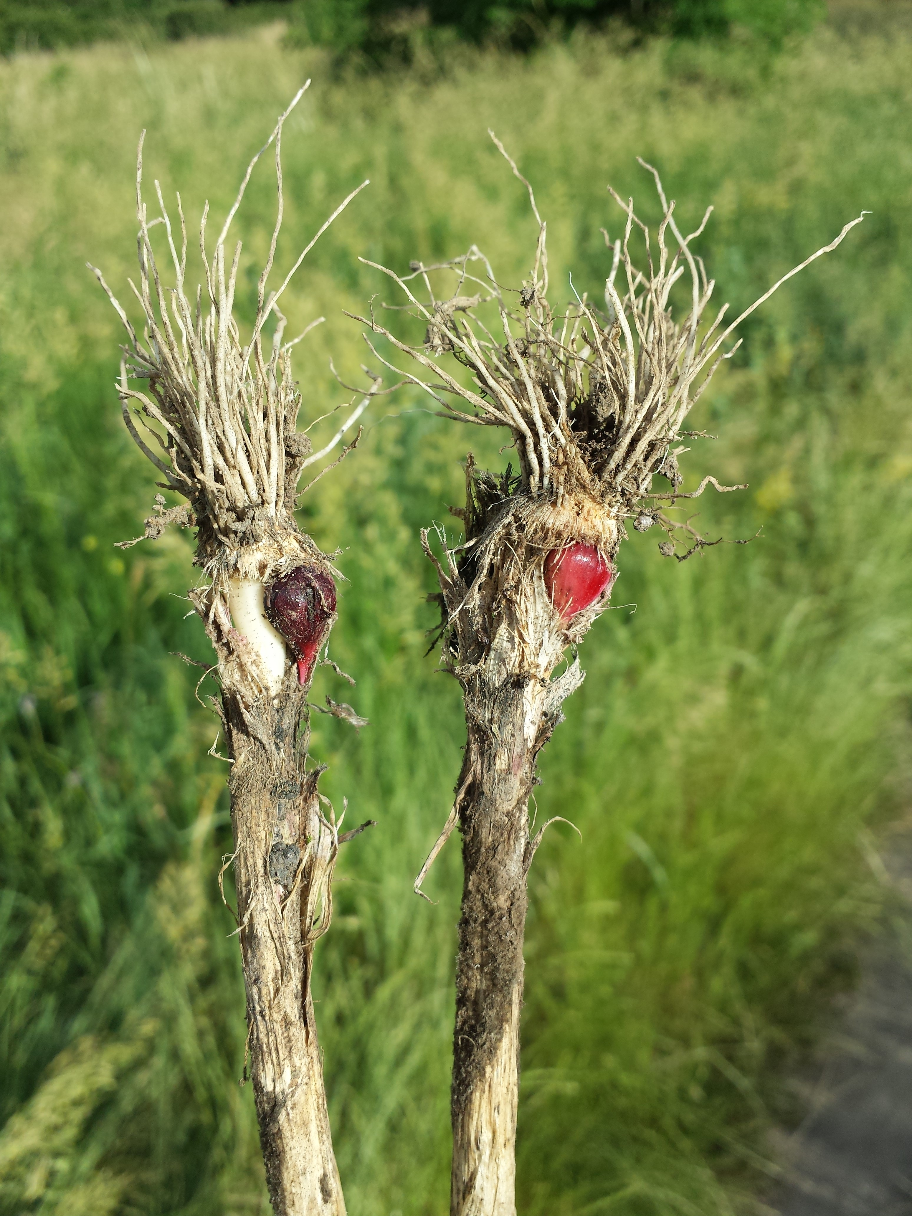 Bulbs Taxonym: Allium scorodoprasum ss Fischer et al. EfÖLS 2008 ISBN 978-3-85474-187-9 Location: Schwarze Lacke, Vienna-Floridsdorf - ca. 160 m a.s.l. Habitat: dry meadow